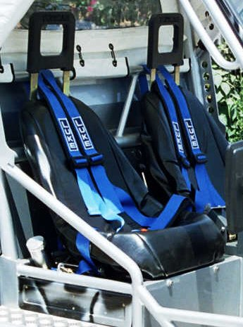 This is a cropped version of the image:8A 0154.jpg. I am not sure if the harness is a 4 point of a 5 point harness.